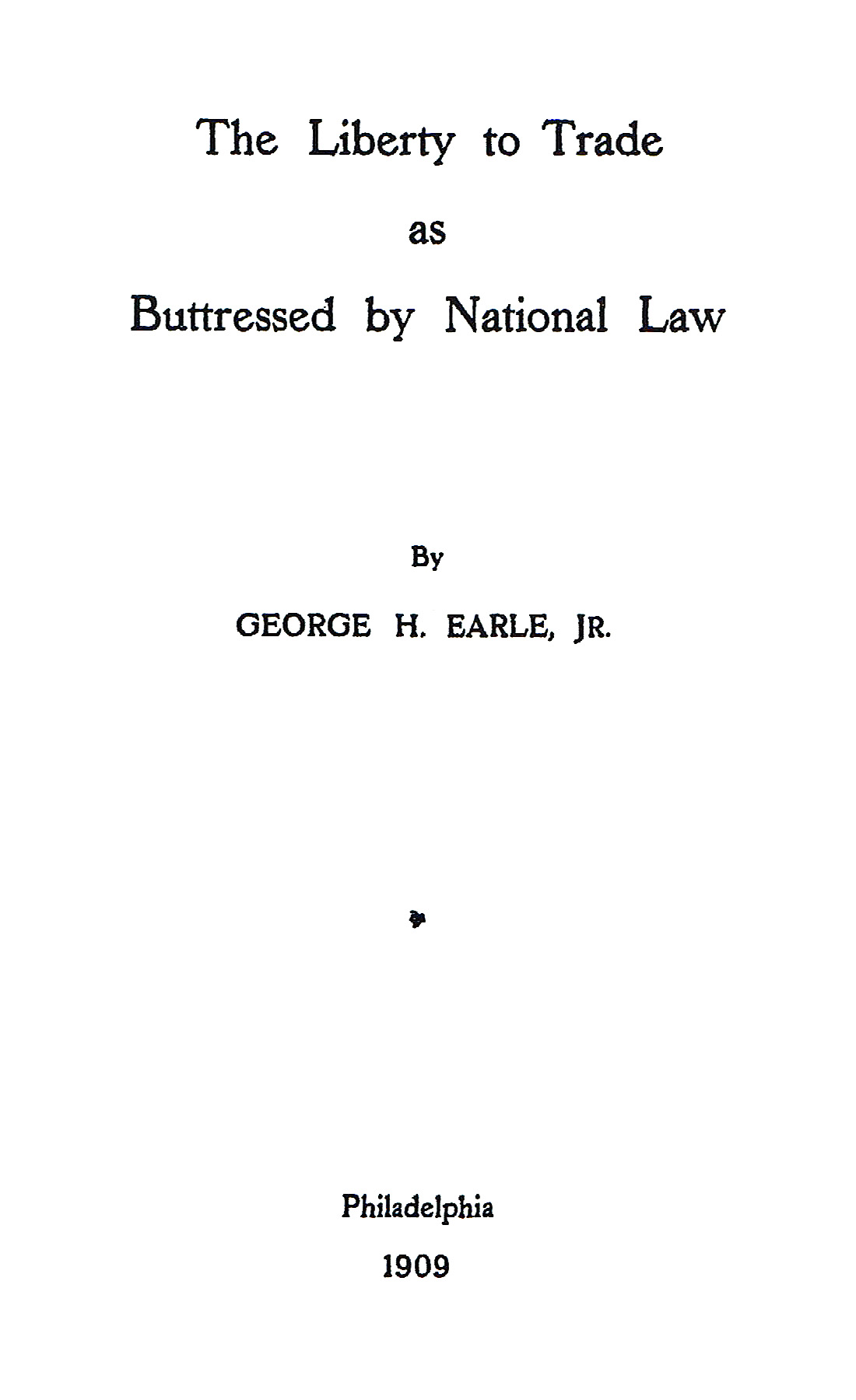 Title page from The Liberty to Trade as Buttressed by National Law (1909) by George H. Earle, Jr.